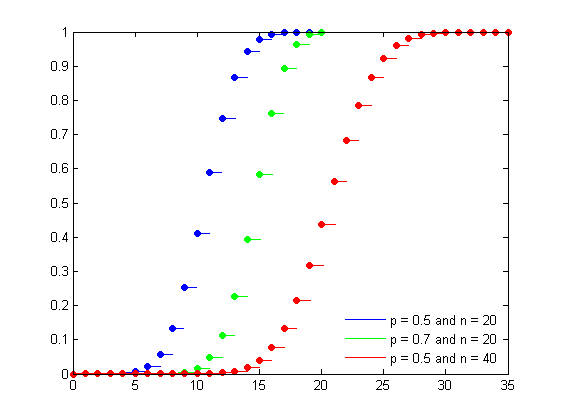 The cumulative distribution function for the binomial distribution is a step function. It has discontinuities at the points (it's support, i.e. where there is positive probability mass).